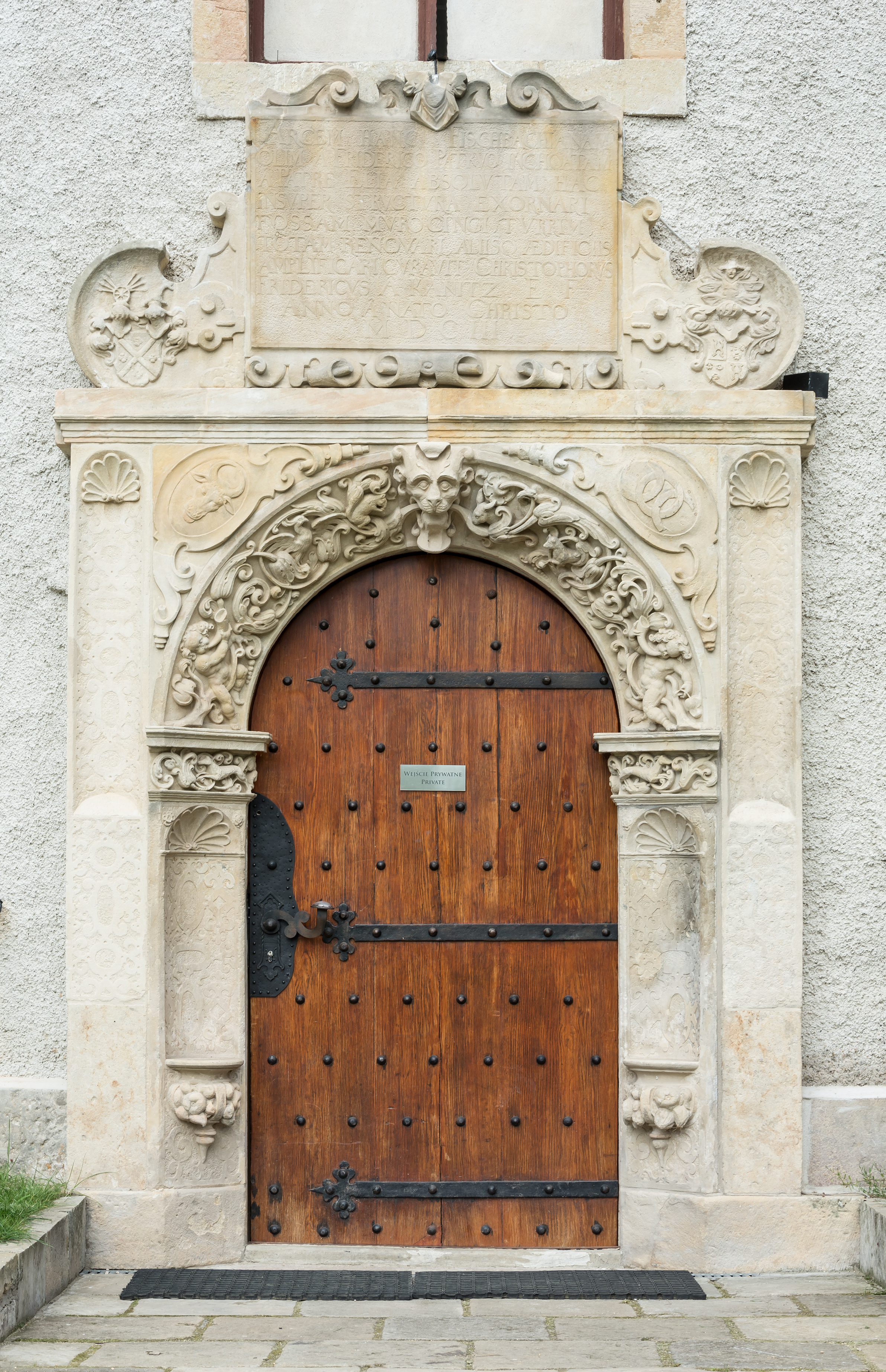 Door at Karpniki Castle